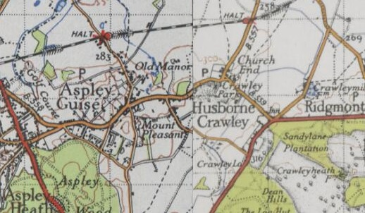 Ordnance Survey Map of Husborne Crawley from 1945.